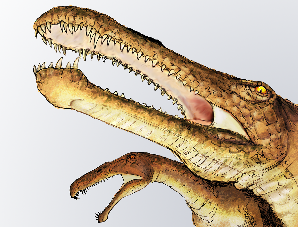 Irritator challengeri is probably a spinosaurid dinosaur related to Spinosaurus. It is thought to have lived in the early Cretaceous period, around 110 million years ago. Current estimations indicate a length of 8 metres (26 feet) and a height of 3 metres (9 feet).